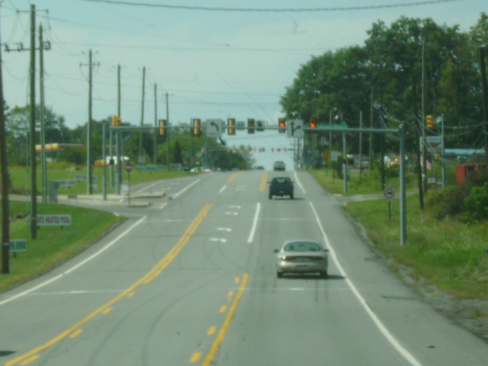 Pennsylvania Route 415 heading northbound in Dallas Township nearing the intersection with the eastern terminus of Pennsylvania Route 118 (former PA 115).